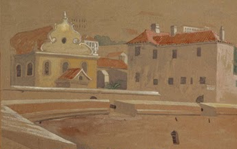 Portion of a watercolor by Frederick Leeds Eldridge, showing Flemish Synagogue (l) and Bomb House (r), the latter now the Gibraltar Museum.